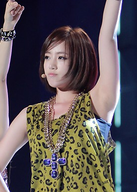 Eunjung at K-Collection in Seoul, March 2012